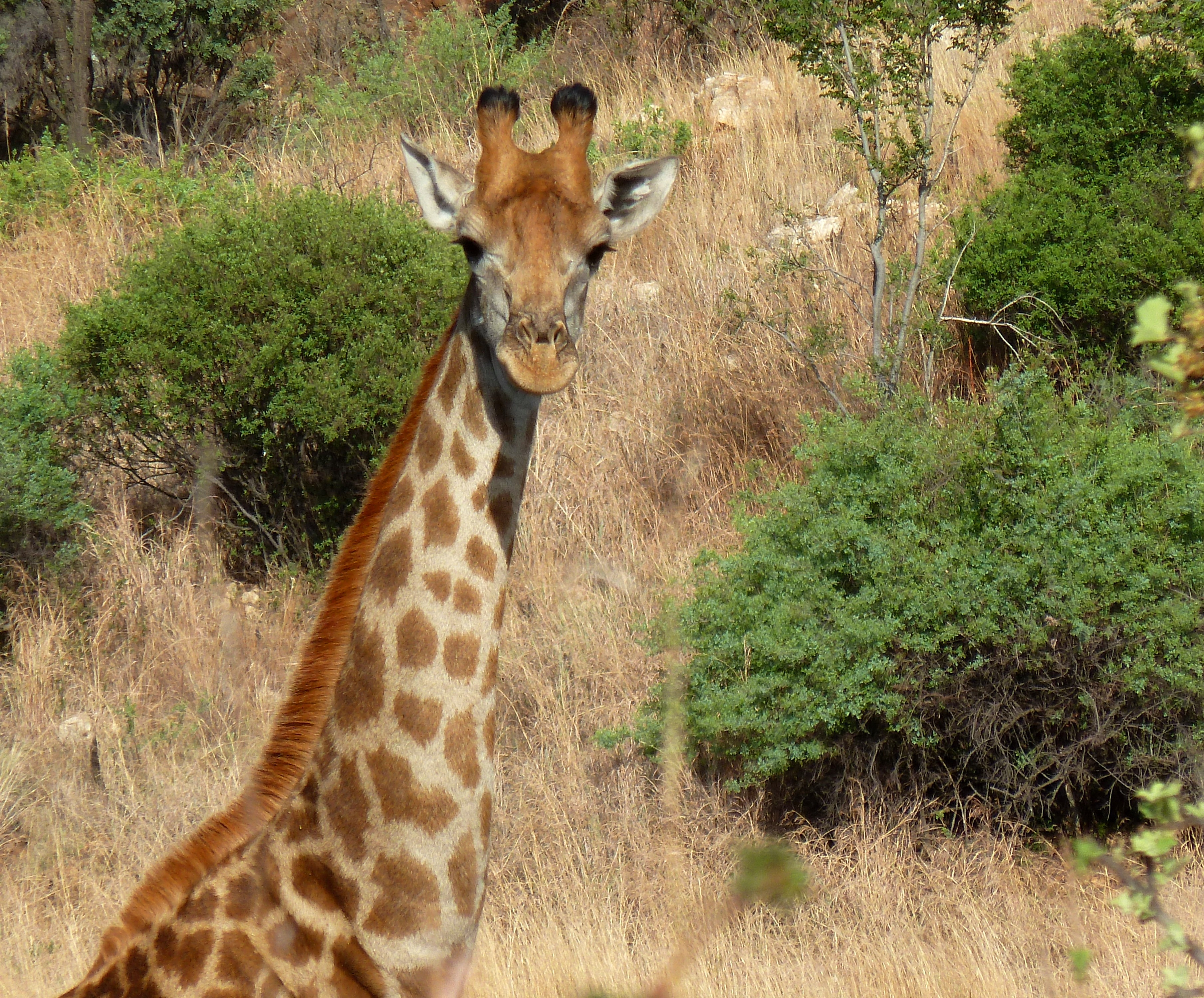 Giraffe cow in the Groenkloof Nature Reserve, Pretoria